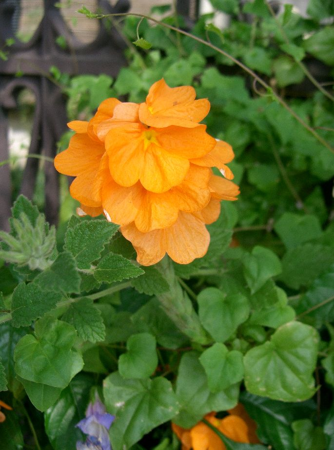 Crossandra infundibuliformis 'Summer Candle'